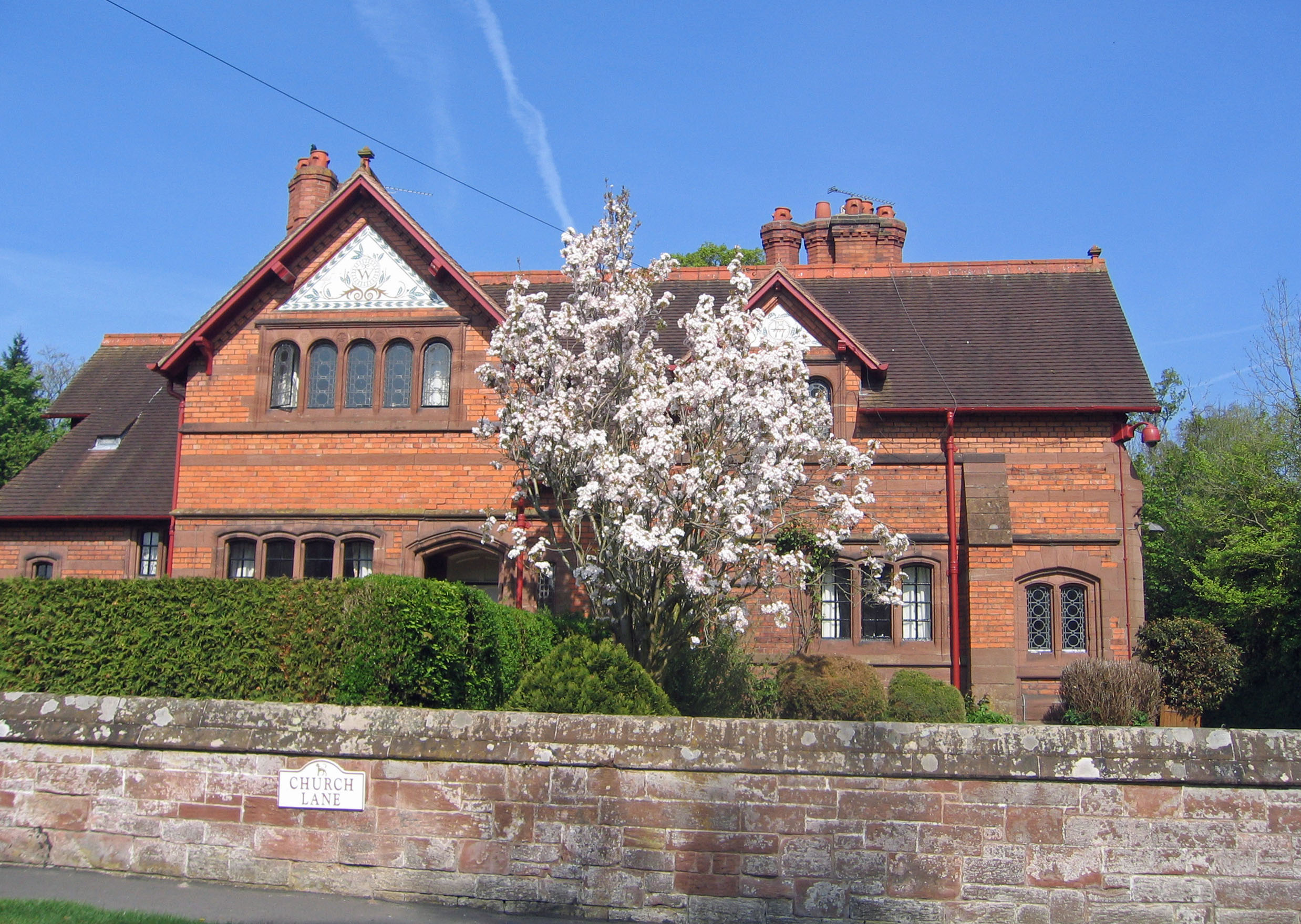 Photograph of the house in the village of Aldford